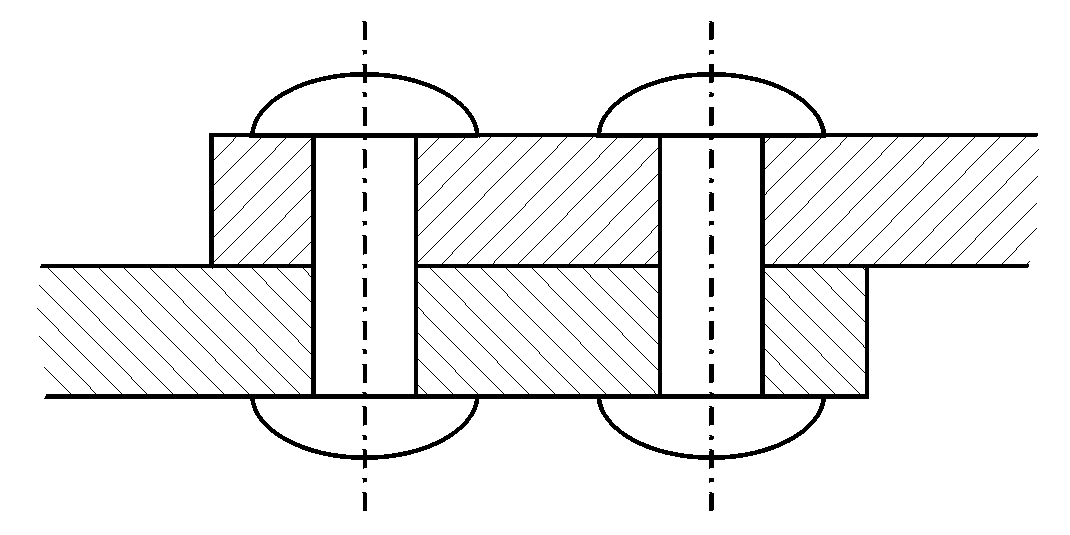 Solid rivet